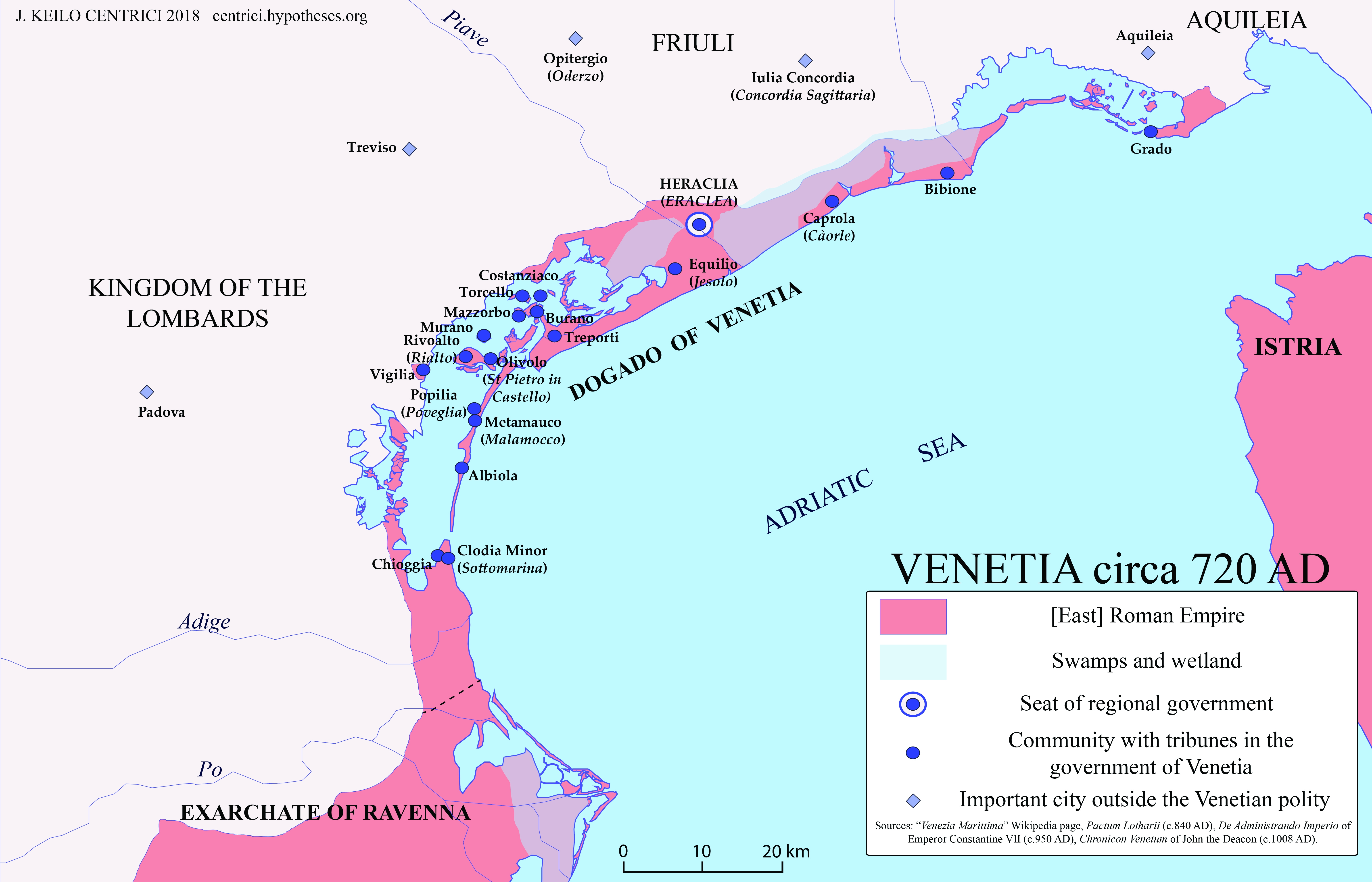 The political situation in Venetia, around the year 720 AD.